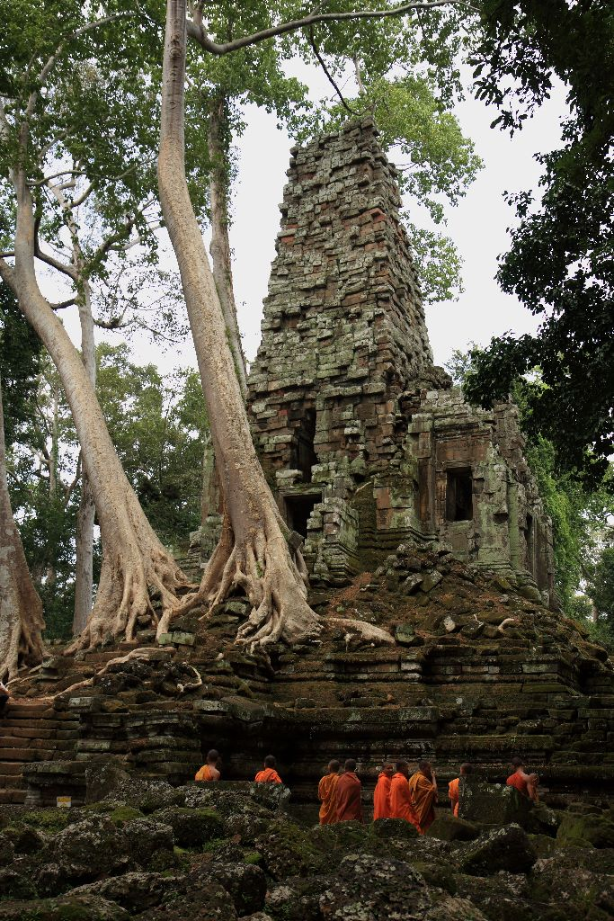 Preah Palilay Shrine with monks from the nearby monastery Taken in October 2007 Ankor, Siem Reap, Cambodia, South-east Asia